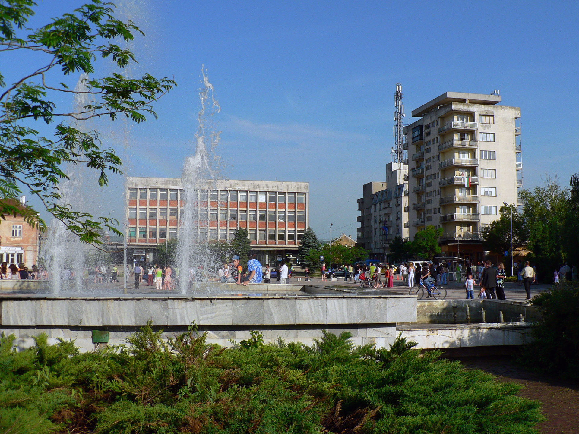 The centre of the town of Polski Trambesh, Bulgaria